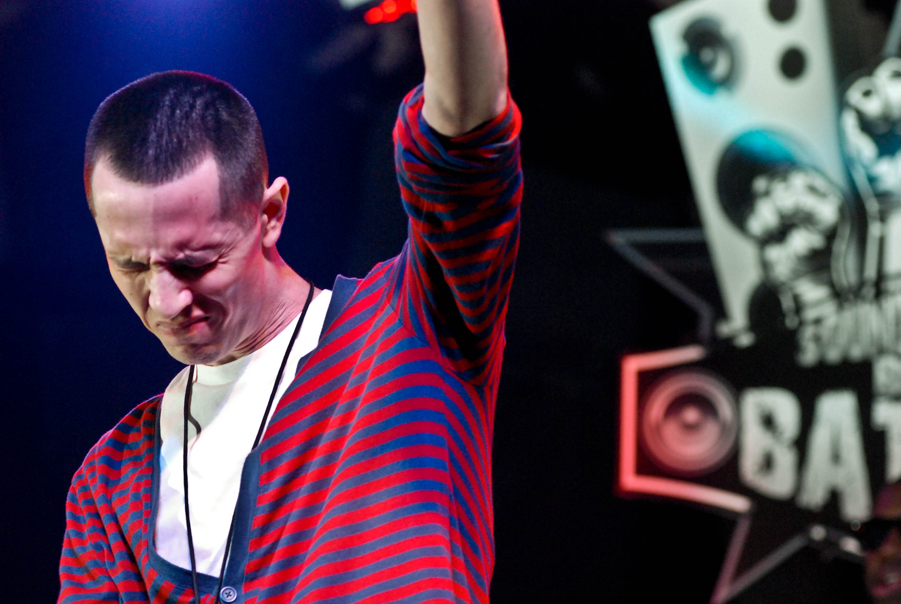 May 28, 2011 1st place Winner of Soundtrack Beat Battle - Dirty Rice